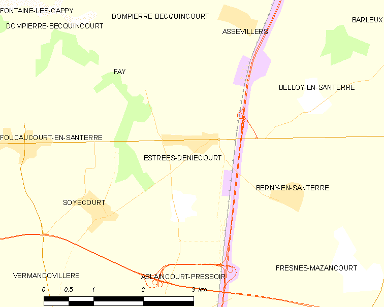 Map of French municipality Estrées-Deniécourt